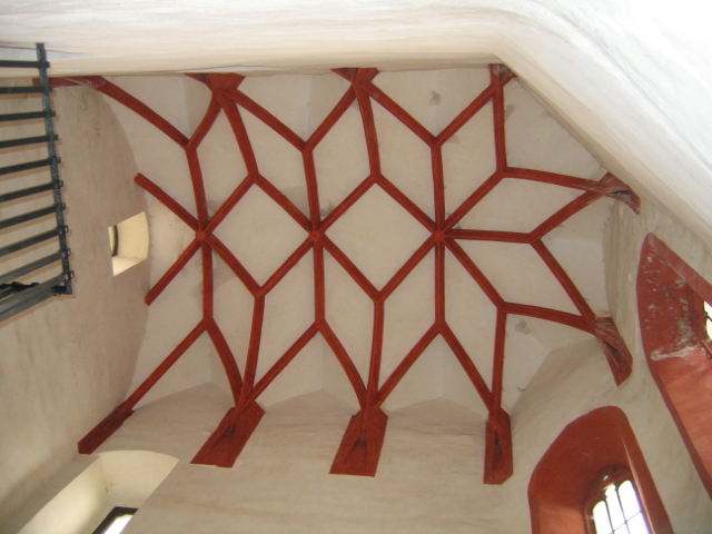 Slovakia, Castle Strečno, july 2006